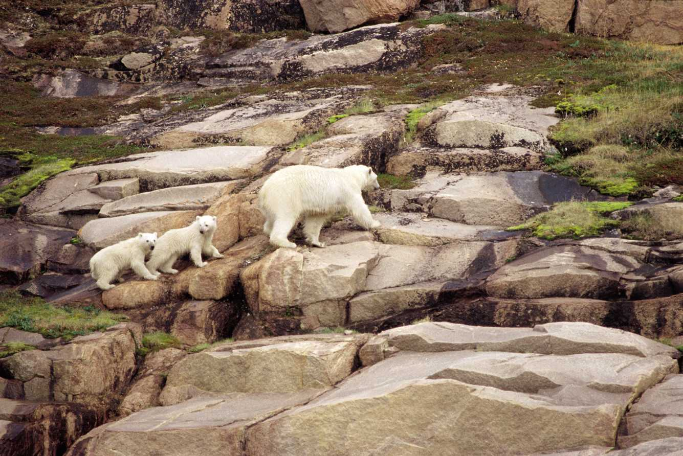 Polar bear, Ursus maritimus; mother and two cubs climbing up Guillemot Island (Ukkusiksalik National Park, Nunavut, Canada)